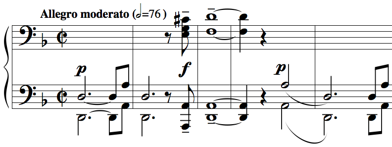 Piano Sonata No. 1, mvmt. 1, composed by Sergei Rachmaninoff in 1908 was published before 1923, and thus is in the public domain.